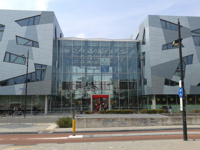 Vocational school near the train station, Nijmegen. Main entrance.